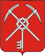 Schyokino (Tula oblast), coat of arms